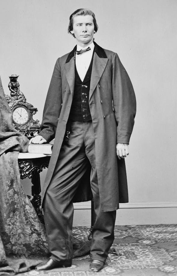 Hon. Sempronius Hamilton Boyd.